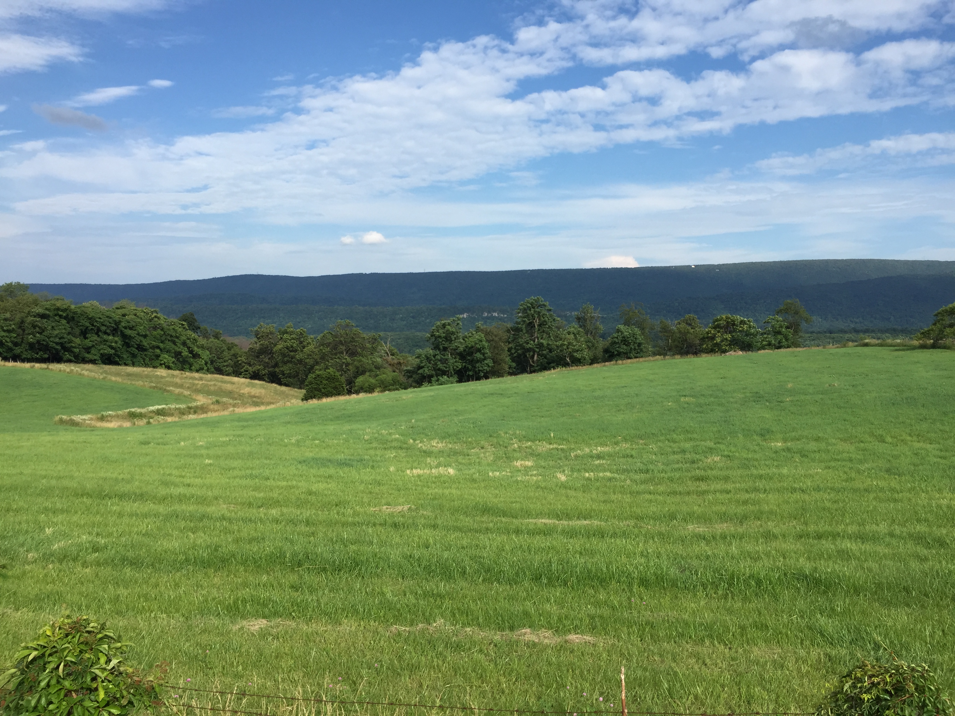 View southeast towards Great North Mountain in Frederick County, Virginia from West Virginia State Route 259 (Carpers Pike) in High View, Hampshire County, West Virginia